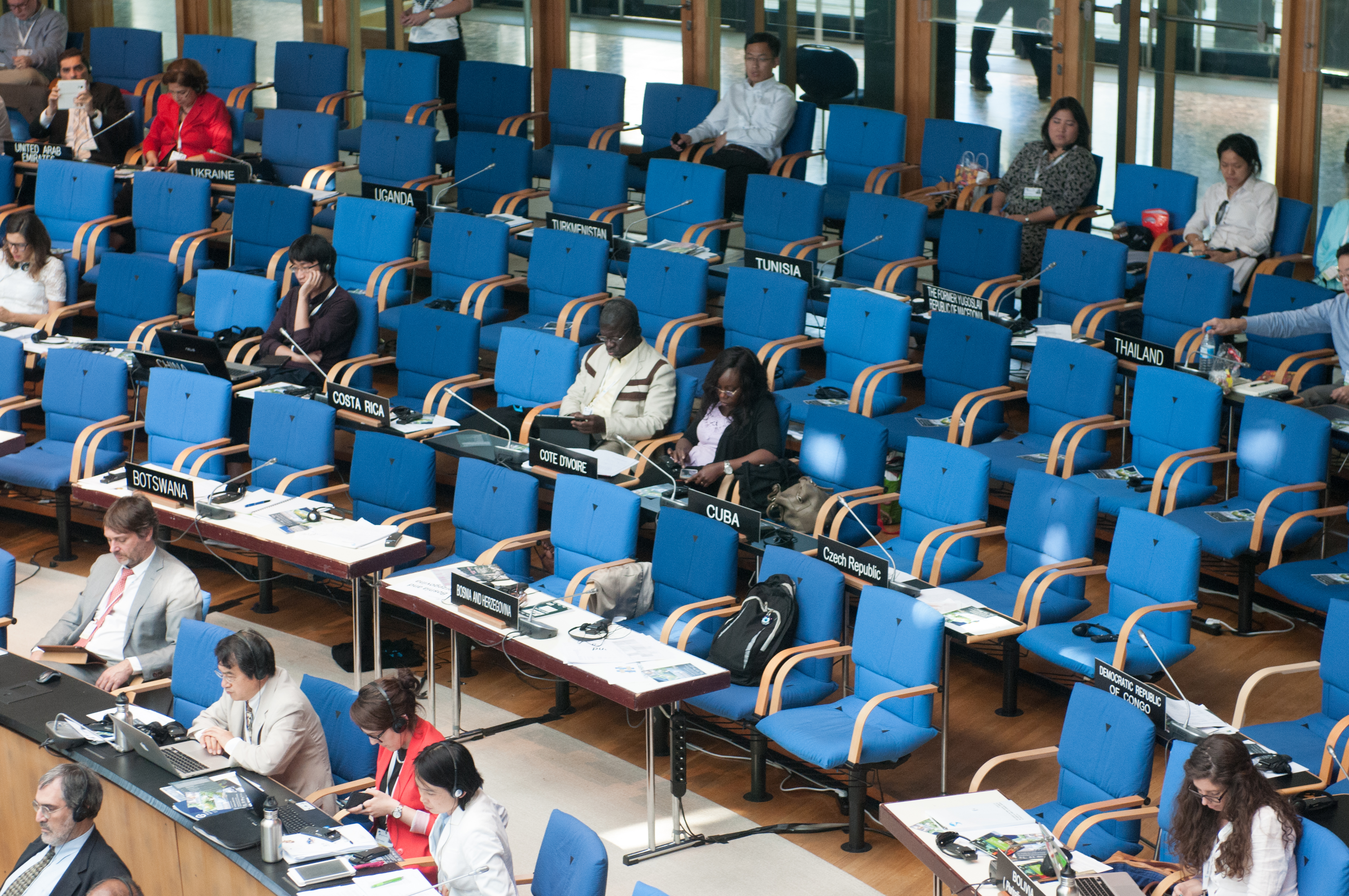 39 World Heritage Committee Bonn, Juli 2015